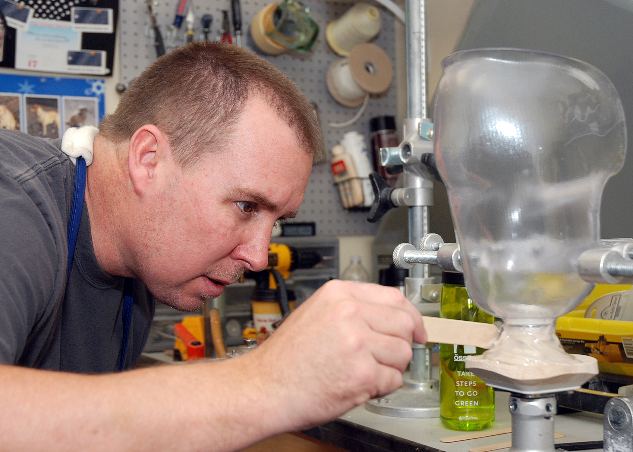 SAN DIEGO (Nov. 12, 2010) Nate Jackson, a technician and prosthetics fabricator at the Naval Medical Center San Diego Prosthetics Laboratory, uses a tongue depressor to clean extraneous epoxy adhesive around a check socket. The prosthetics laboratory manufactures and assembles more than 50 upper and lower limbs and extremities each month. (U.S. Navy photo by Mass Communication Specialist 1st Class Todd Hack/Released)